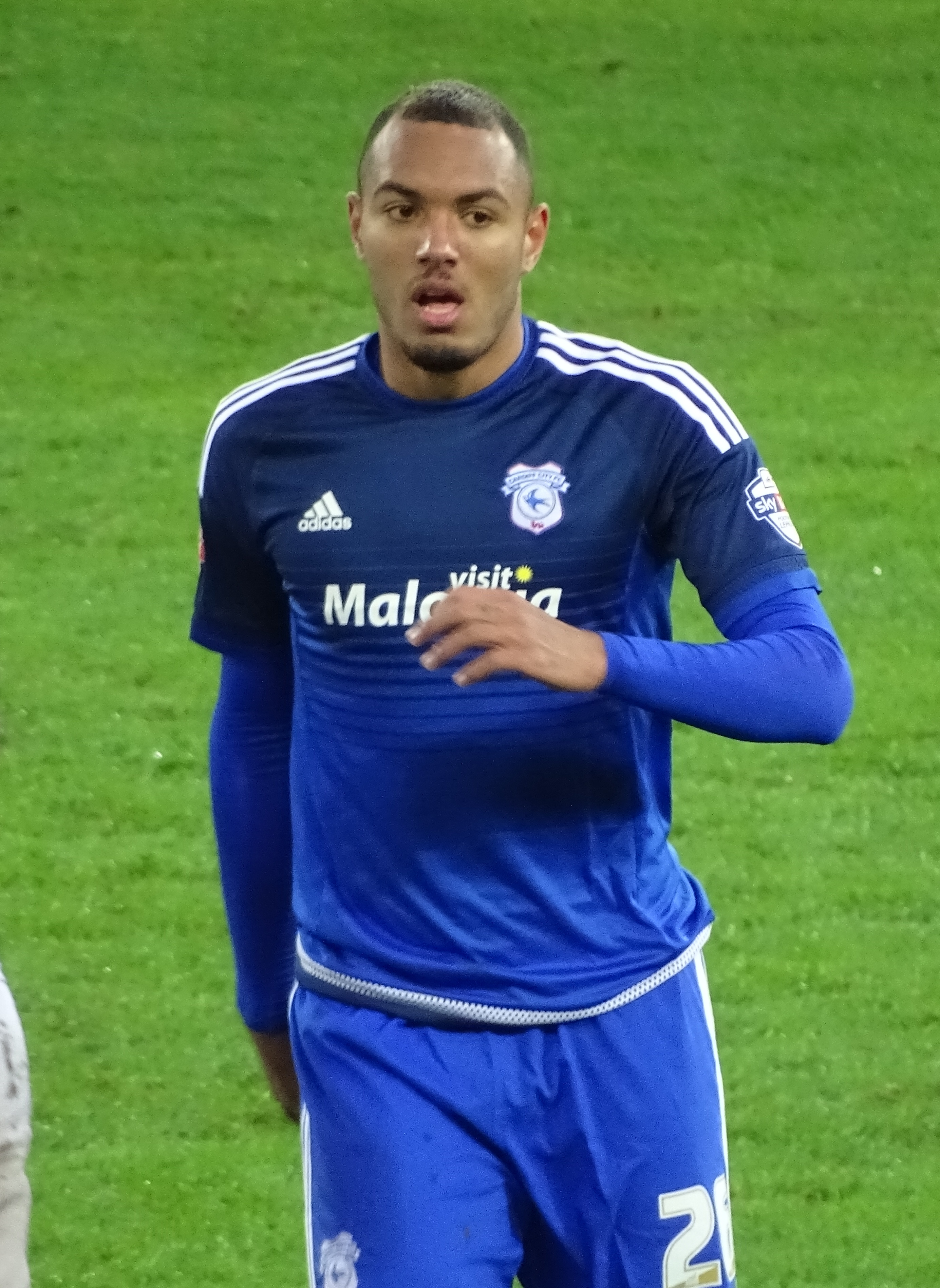 Footballer Kenneth Zohore playing for Cardiff City.